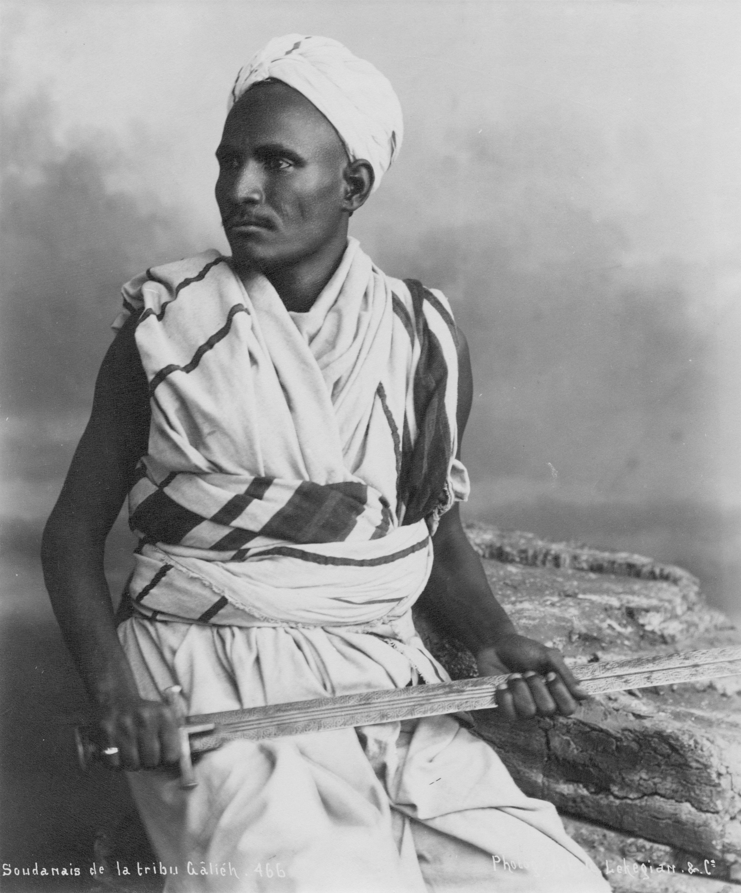 Digital ID: 88421. G. Lekegian & Cie. -- Photographer. 1860s-1920s Source: [Photographs and prints of Egypt and Syria.] (more info) Repository: The New York Public Library. Photography Collection, Miriam and Ira D. Wallach Division of Art, Prints and Photographs. See more information about this image and others at NYPL Digital Gallery. Persistent URL: Rights Info: No known copyright restrictions; may be subject to third party rights (for more information, click here)